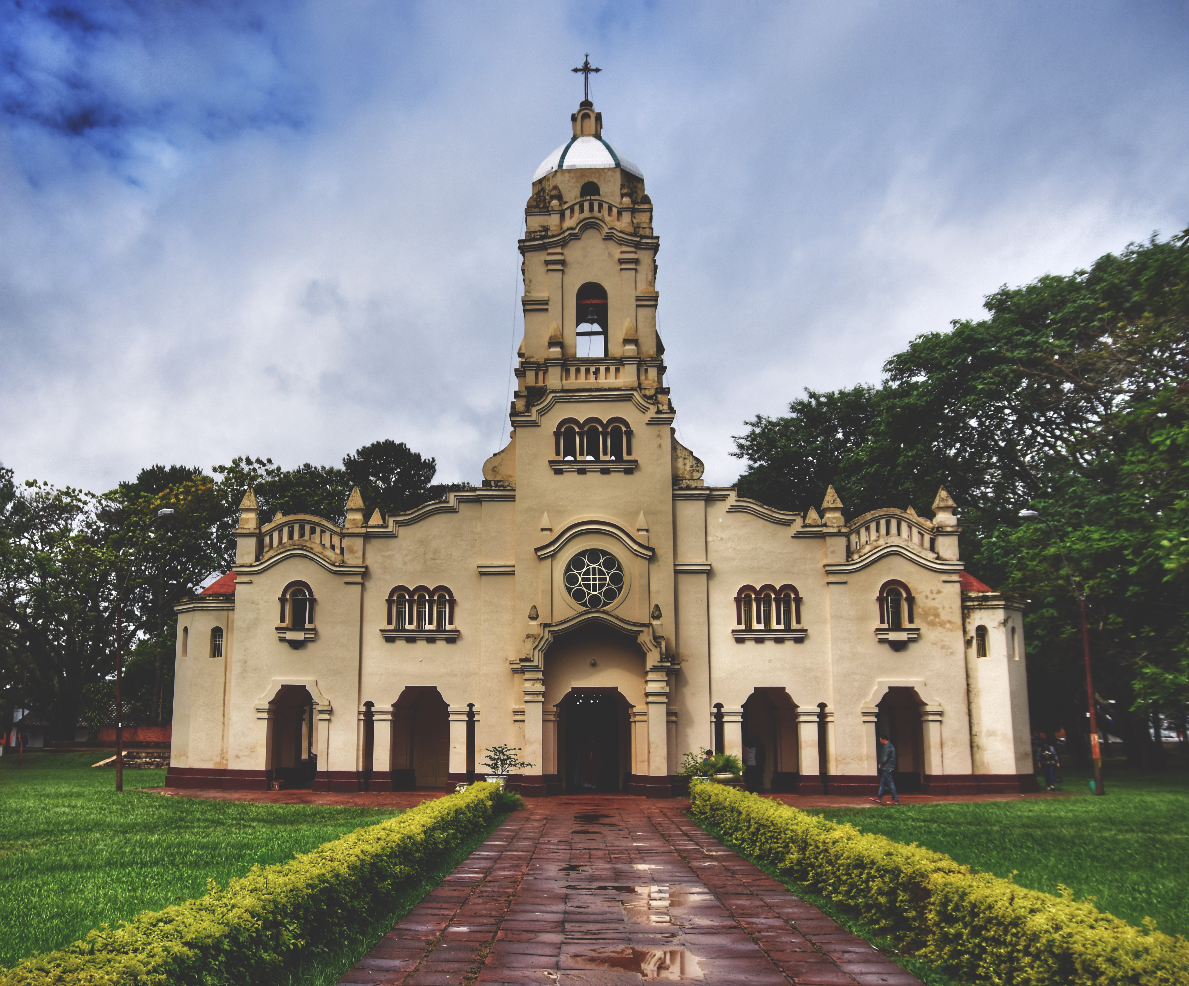 San Ignacio's church - Misiones Paraguay Iglesia de San Ignacio en Misiones, Paraguay